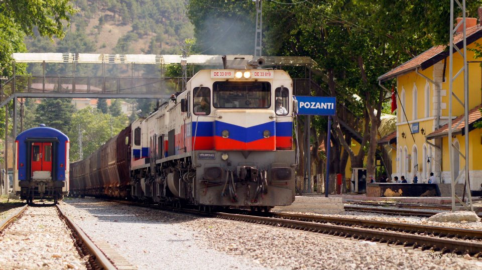 Pozanti railway station.